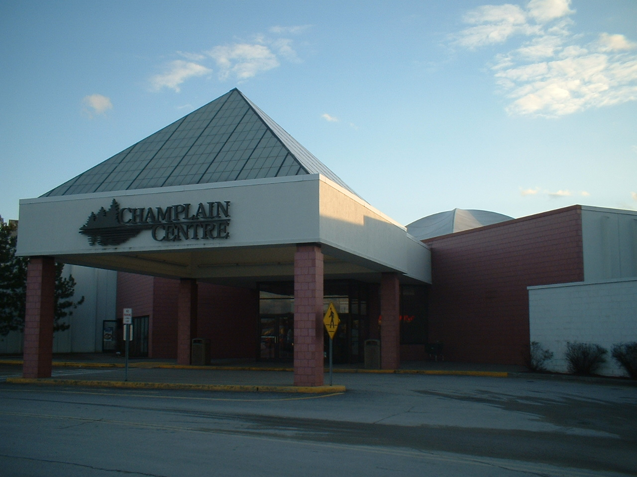 I am the author of this picture. Picture of the Champlain Centre entry, Plattsburgh, NY taken January 6th, 2007. I took it to replace the copyrighted picture used on the mall article.